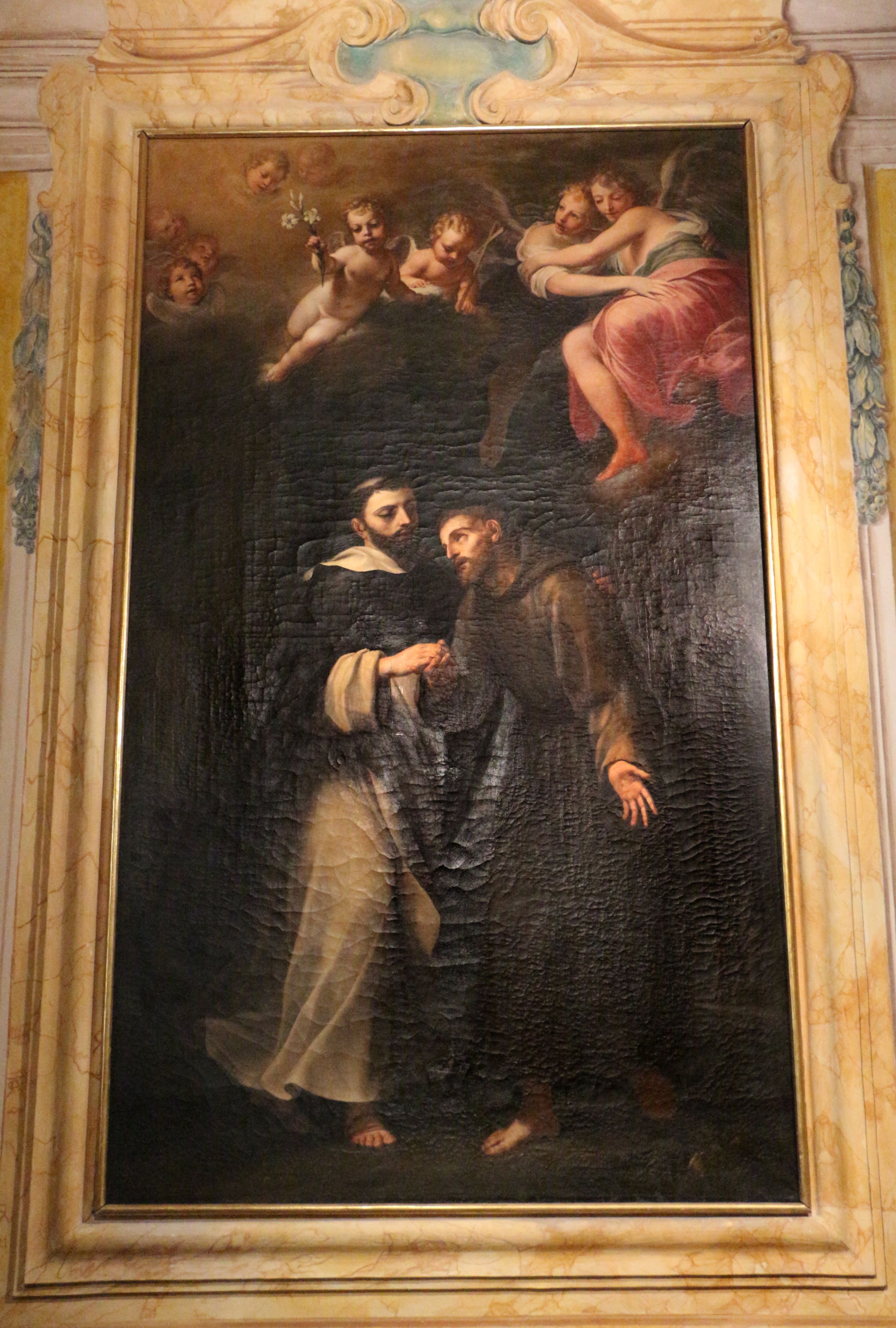 Palazzo Buonaccorsi (Macerata) - Old Masters